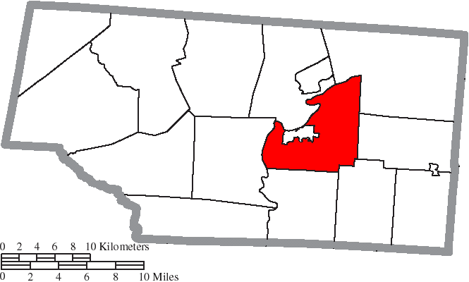 Map of the municipal and township boundaries of Pike County, Ohio, United States, as of the 2000 census, with the location of Seal Township highlighted. Township borders are shown only in unincorporated areas in order to differentiate incorporated and unincorporated areas more clearly.